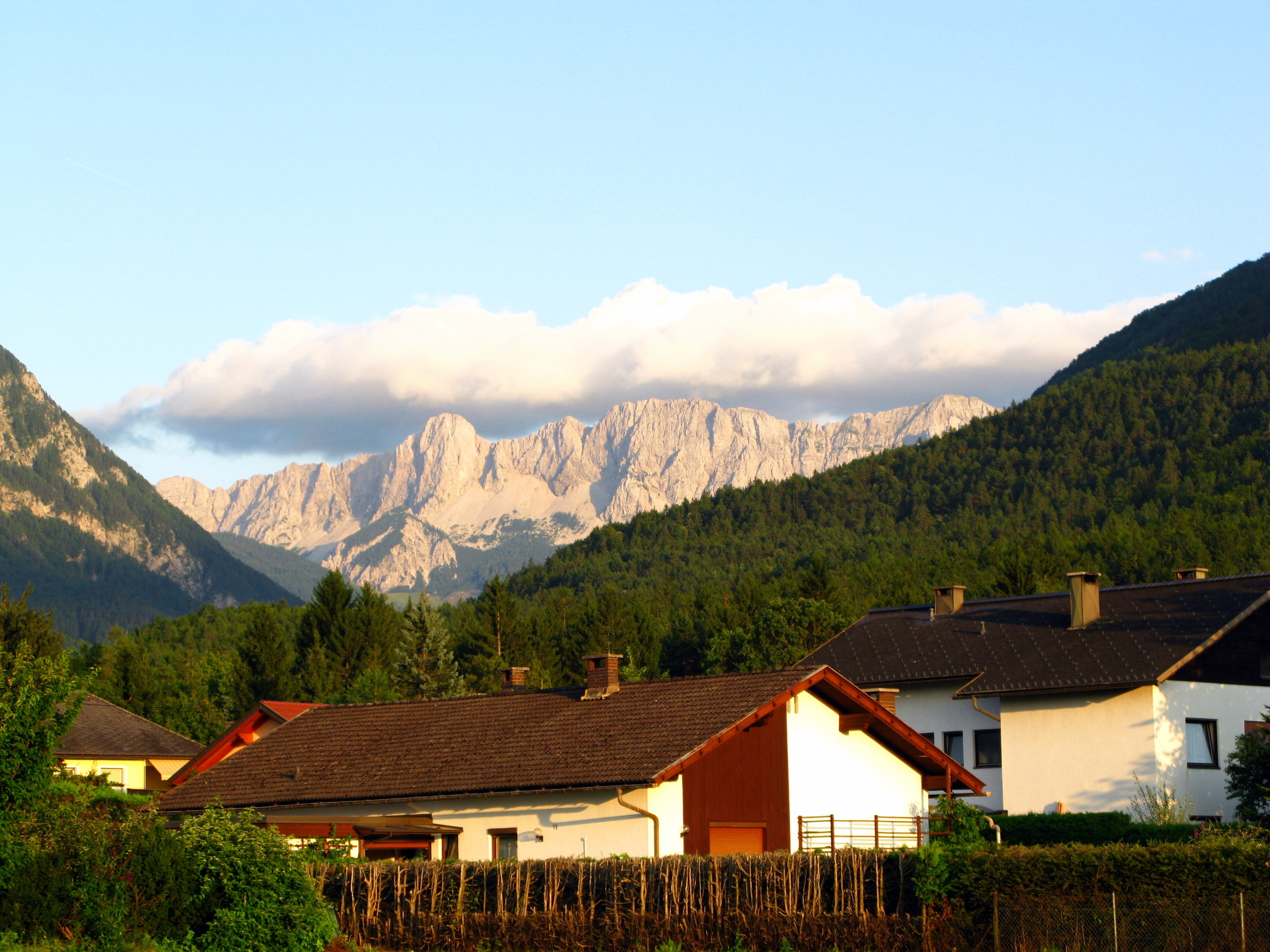 Chalk mountains in Ferlach / Carinthia / Austria / European Union. View from the southeast. In the right background the mountains Rauth and Matzen. Evening in the summer. In the foreground two houses, probably dating from the 1970s.